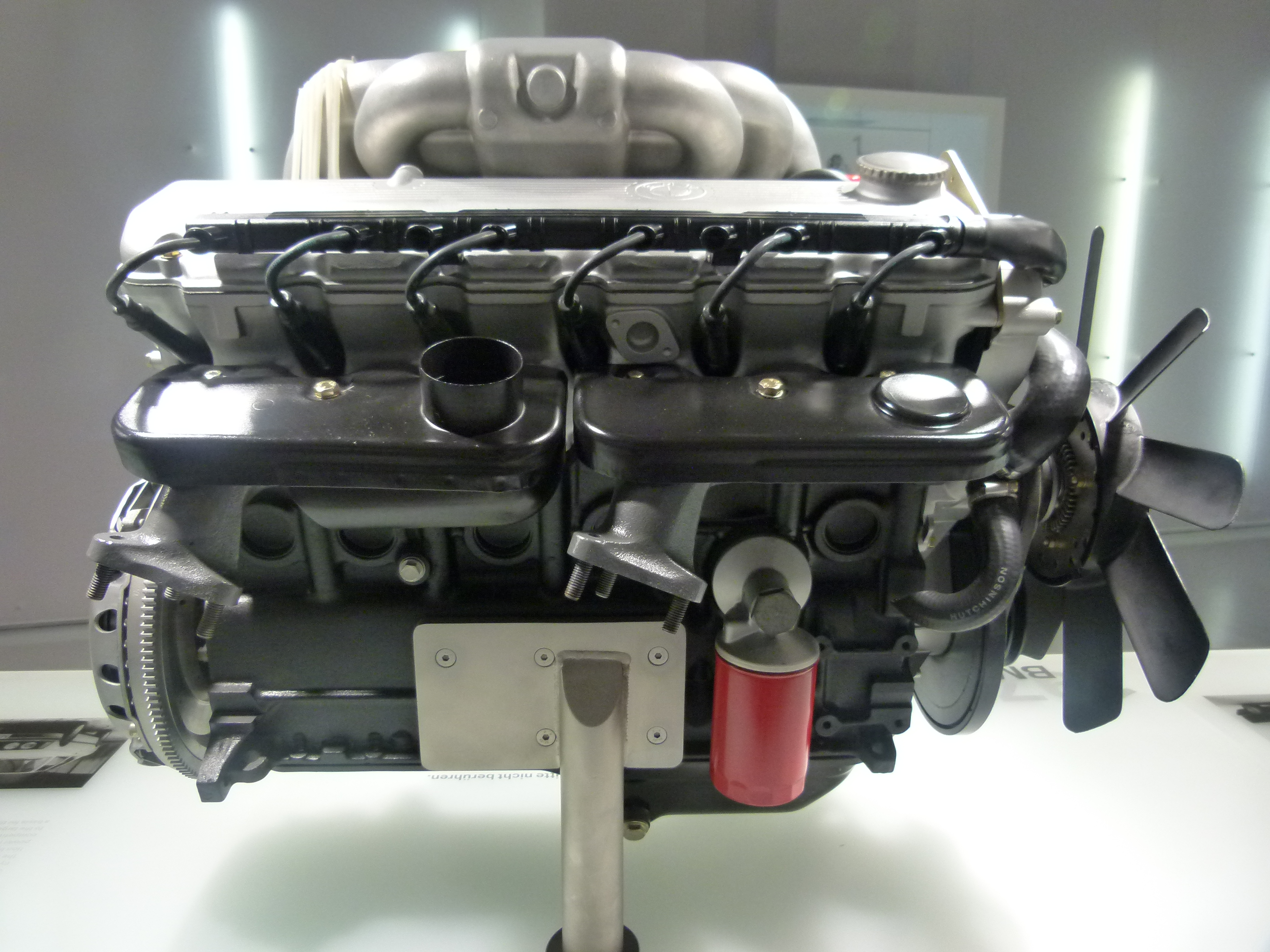 BMW M20 Engine at BMW museum, Munich